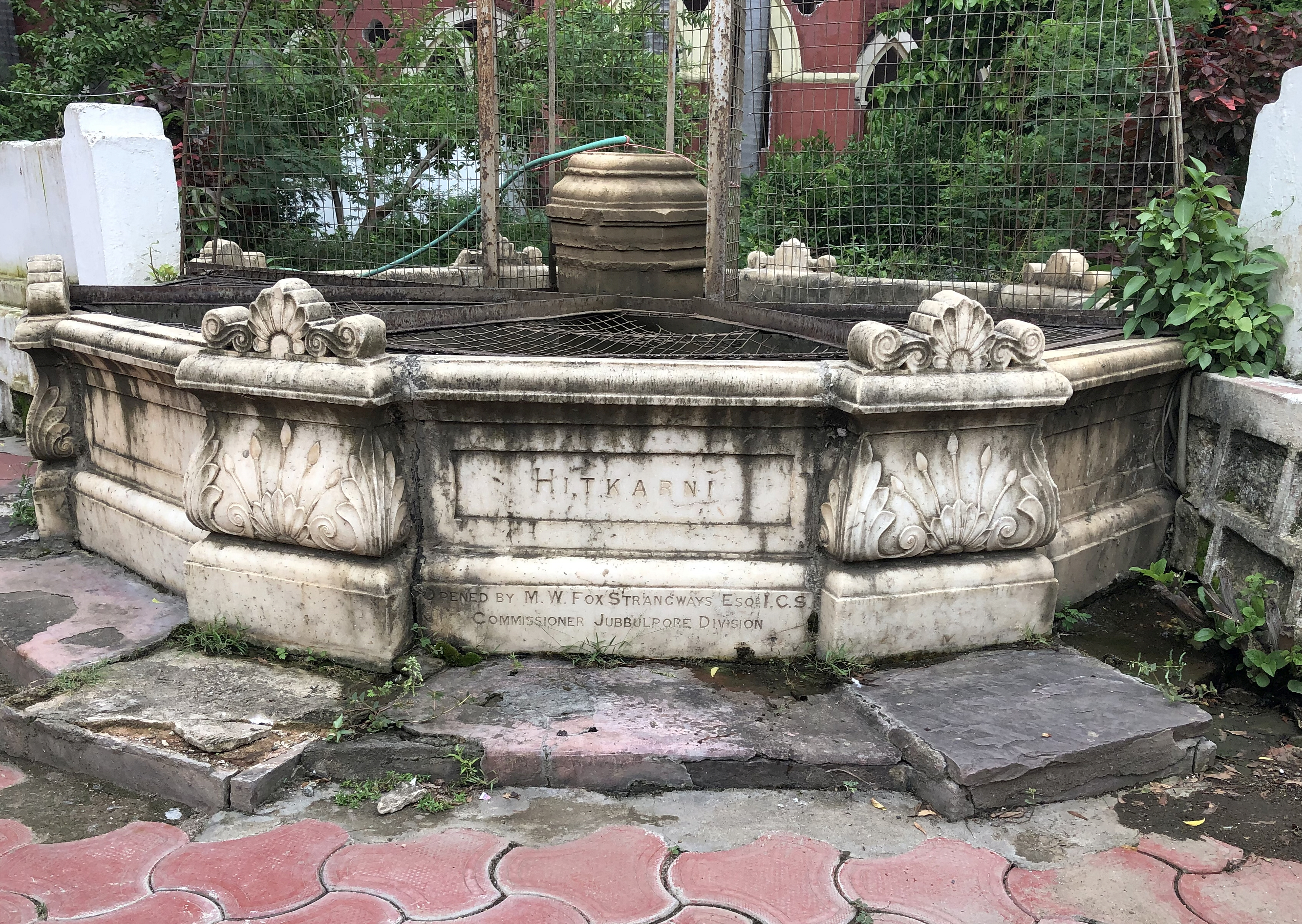 Hitkarini well opended by M.W. Fox Strangeways, Commissioner